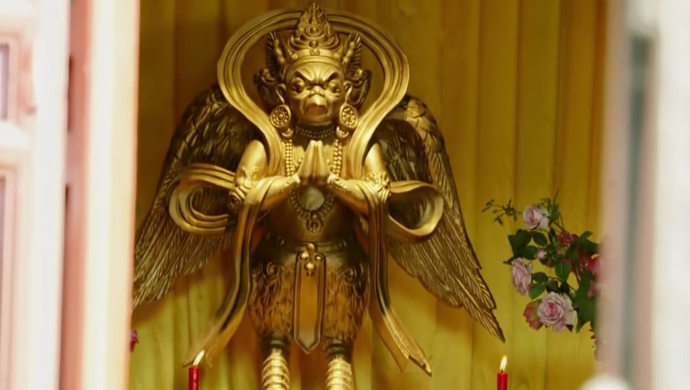 Chinese bird sage